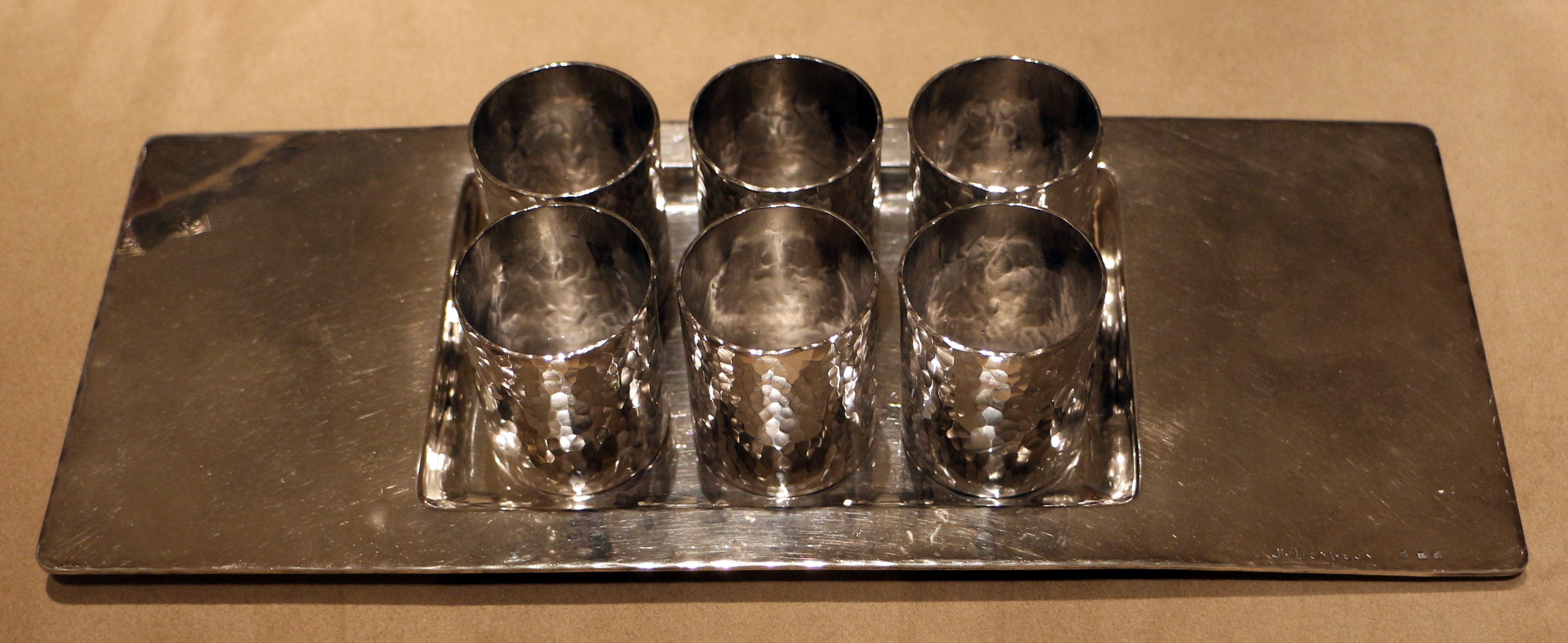 Metalware in the Indianapolis Museum of Art